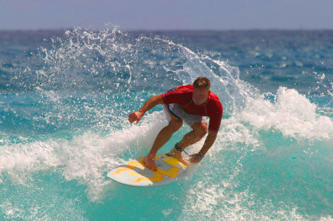 This image is a modification of Image:Surfing in Hawaii.jpg, with its saturation (in HSL) increased by 50% in Photoshop, for comparative use in the English Wikipedia Colorfulness article. Original description: Surfing in Hawaii. A photograph of Kris Burmeister of the U.S. Marine Corps catching a wave during the first surfing contest of the year, the Pyramid Rock Surf Showdown. Photograph taken aboard the MCB Hawaii off the Marine Corps Base Hawaii in Kaneohe Bay.